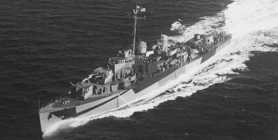 The U.S. Navy destroyer USS Purdy (DD-734) underway off Cape Elizabeth, Maine (USA), on 18 July 1944.